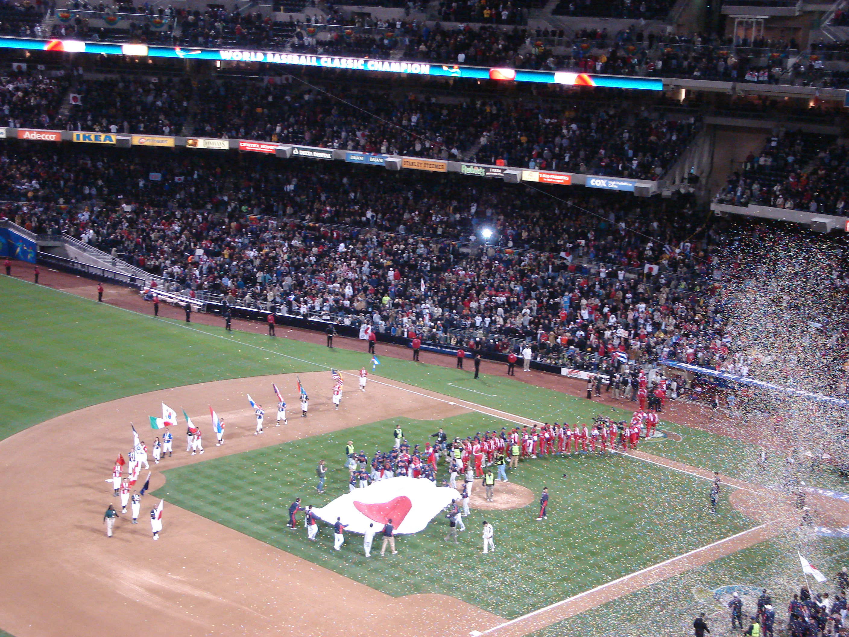 Japan wins inaugural World Baseball Classic